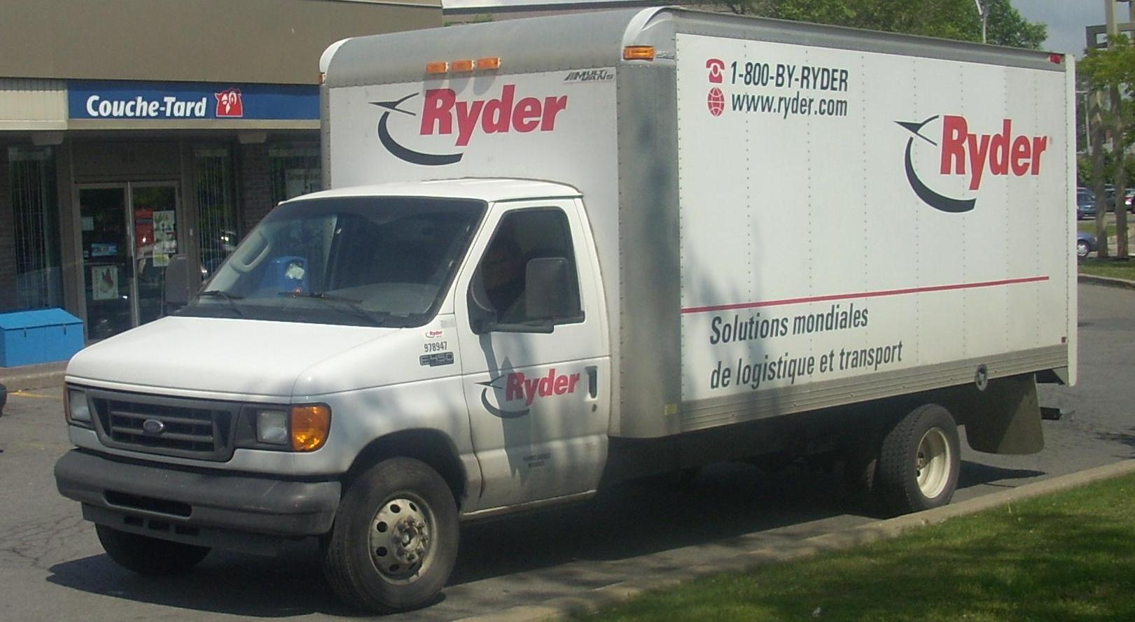 2003-2005 Ford E-450 Ryder photographed in Dorval, Quebec, Canada.